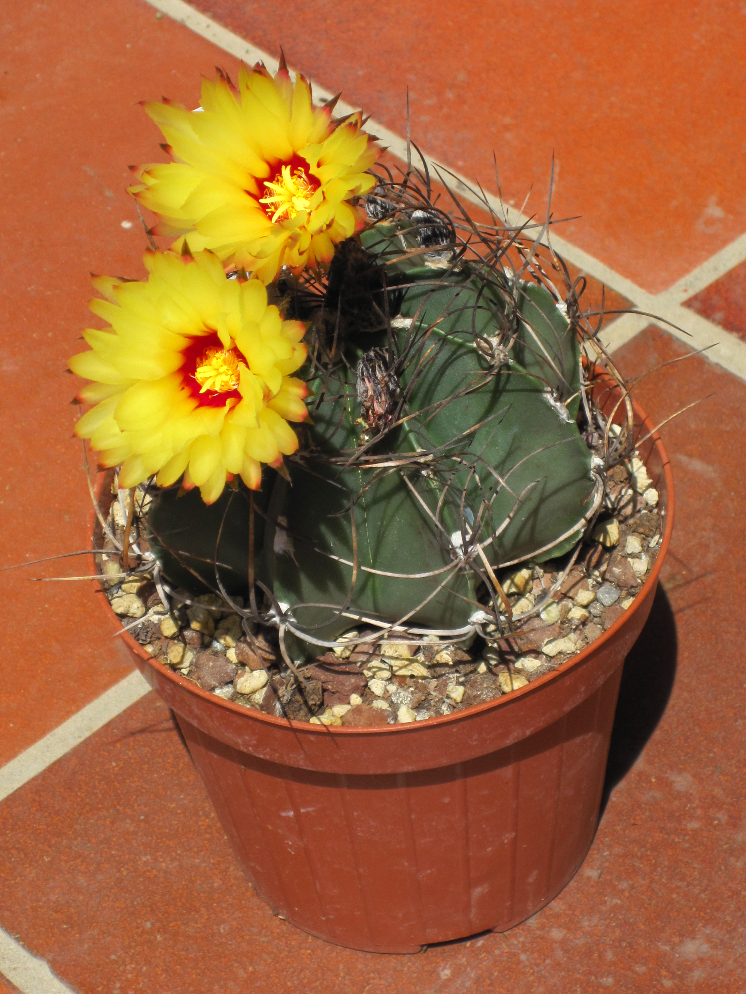 Astrophytum capricorne: flowers